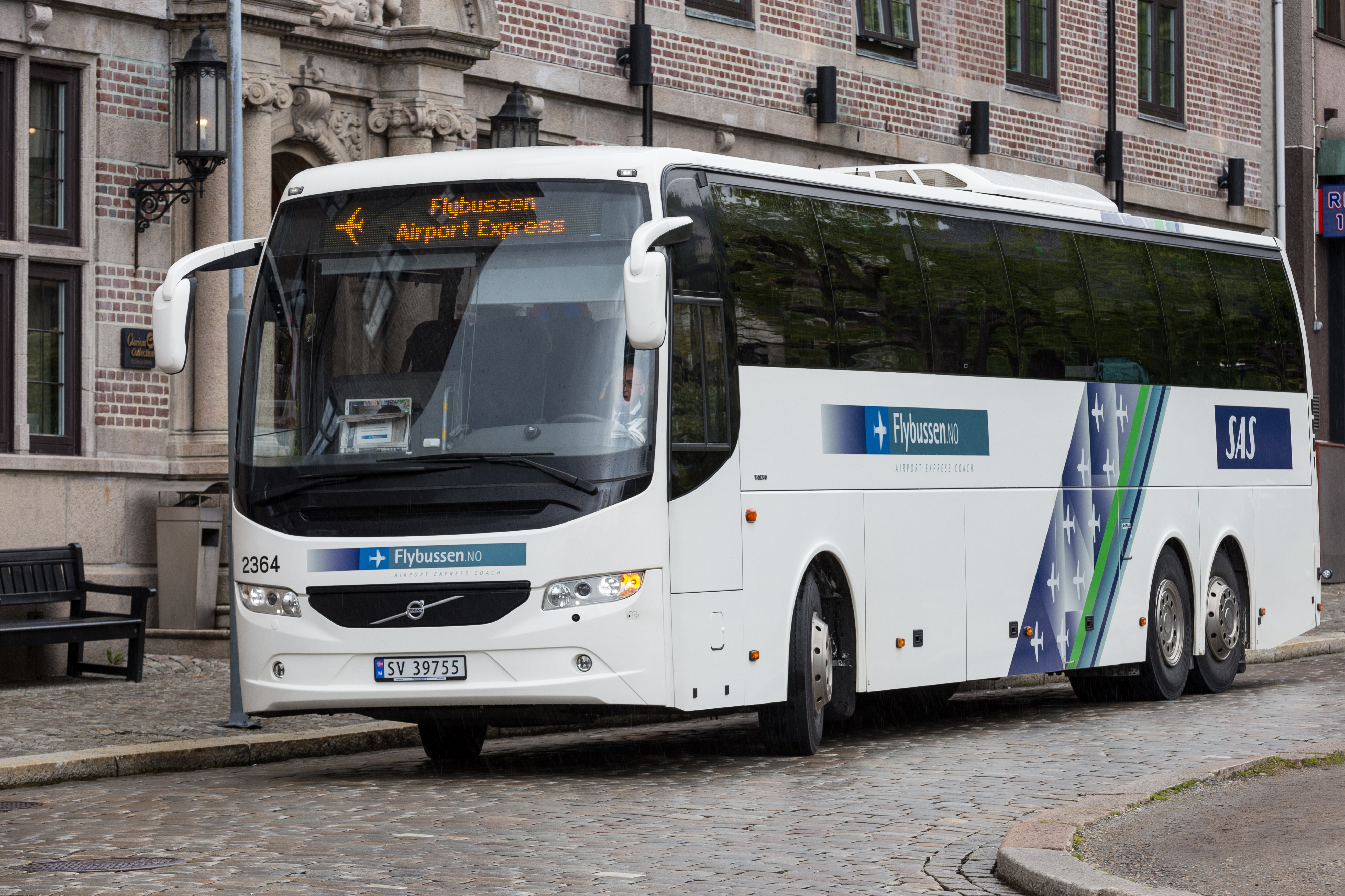 Flybussen Airport Express in Bergen Bryggen